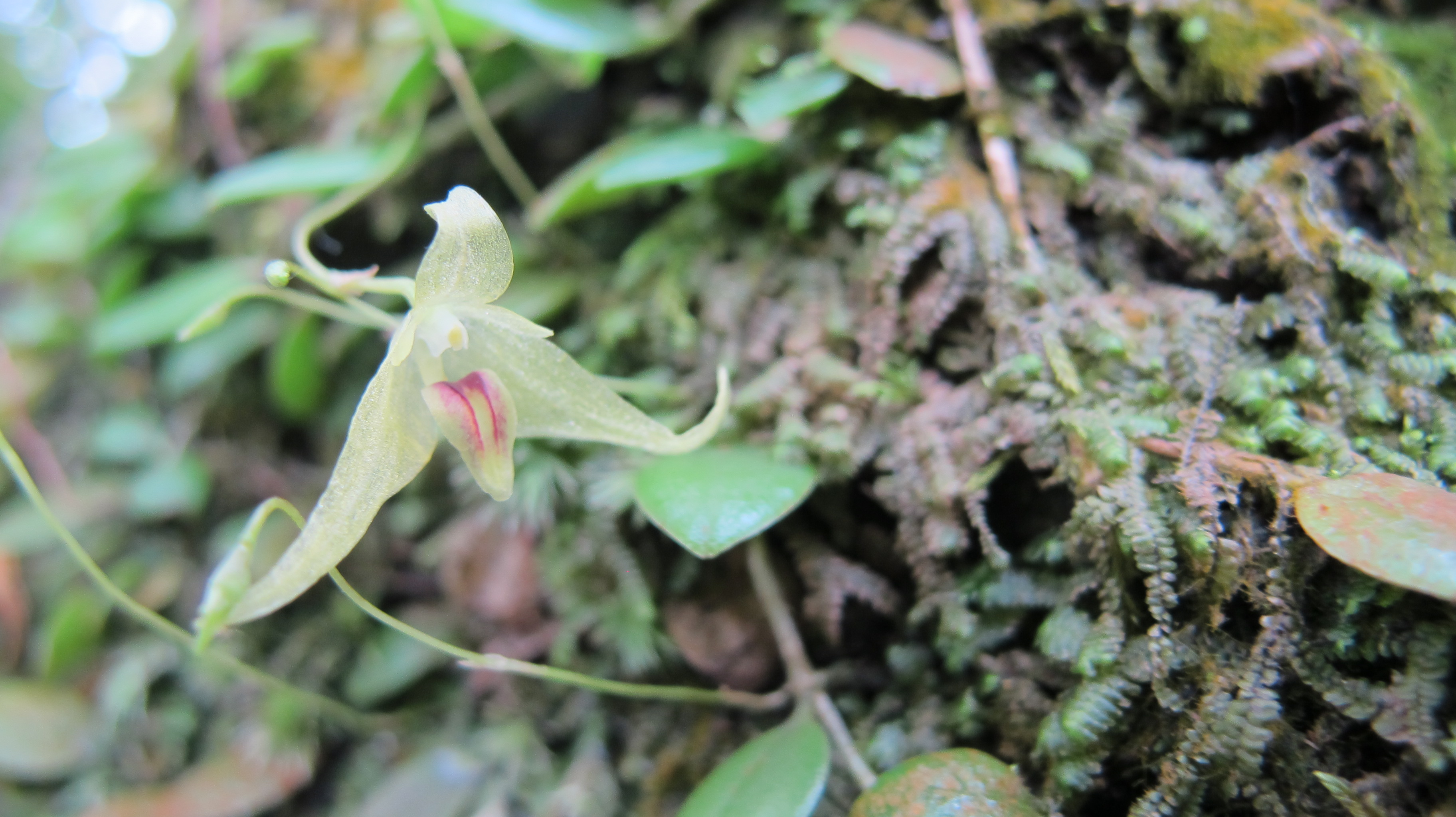 狹萼豆蘭攝於北部之烏來山